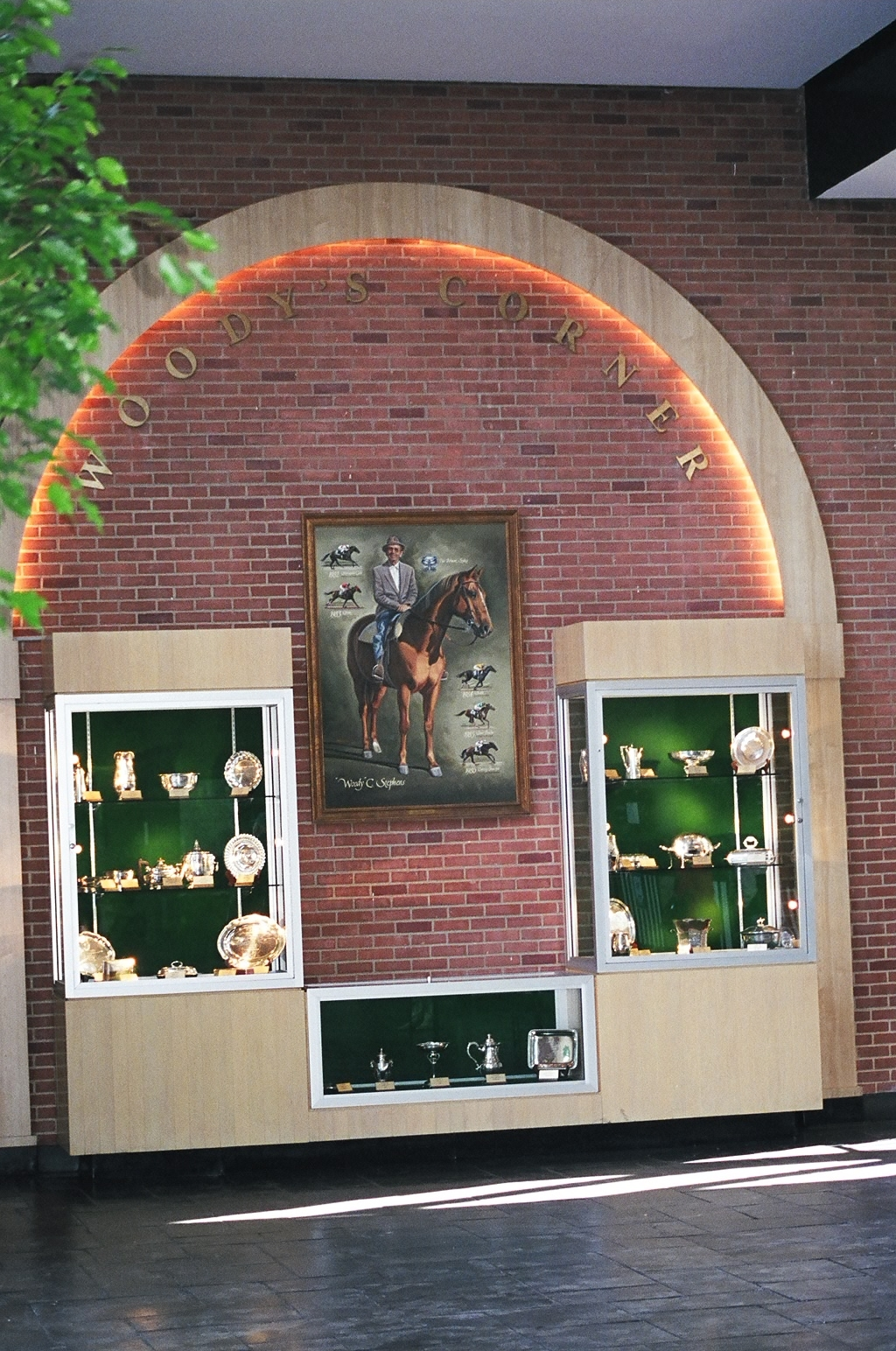 The "Woody's Corner" display in the first-floor clubhouse lobby commemorates the five consecutive Belmont Stakes winners trained by the legendary Woody Stephens from 1982 to 1986. Photo by Dave Mock